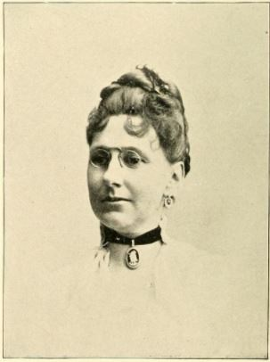 Mrs John H. Mitchell